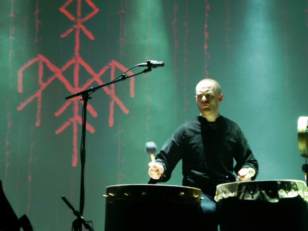 Kvitrafn of Wardruna playing live at Roadburn 2011.